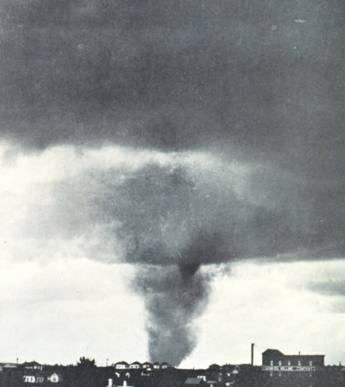 A tornado near Norton, Kansas.